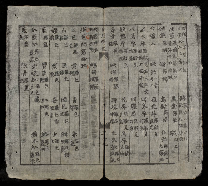 A page from Nhật dụng thường đàm, published in 1851. This is copy R.1726, p.38. The original is at the National Library of Vietnam. It is a dictionary of Classical Chinese for Vietnamese speakers. The text is in Nom.